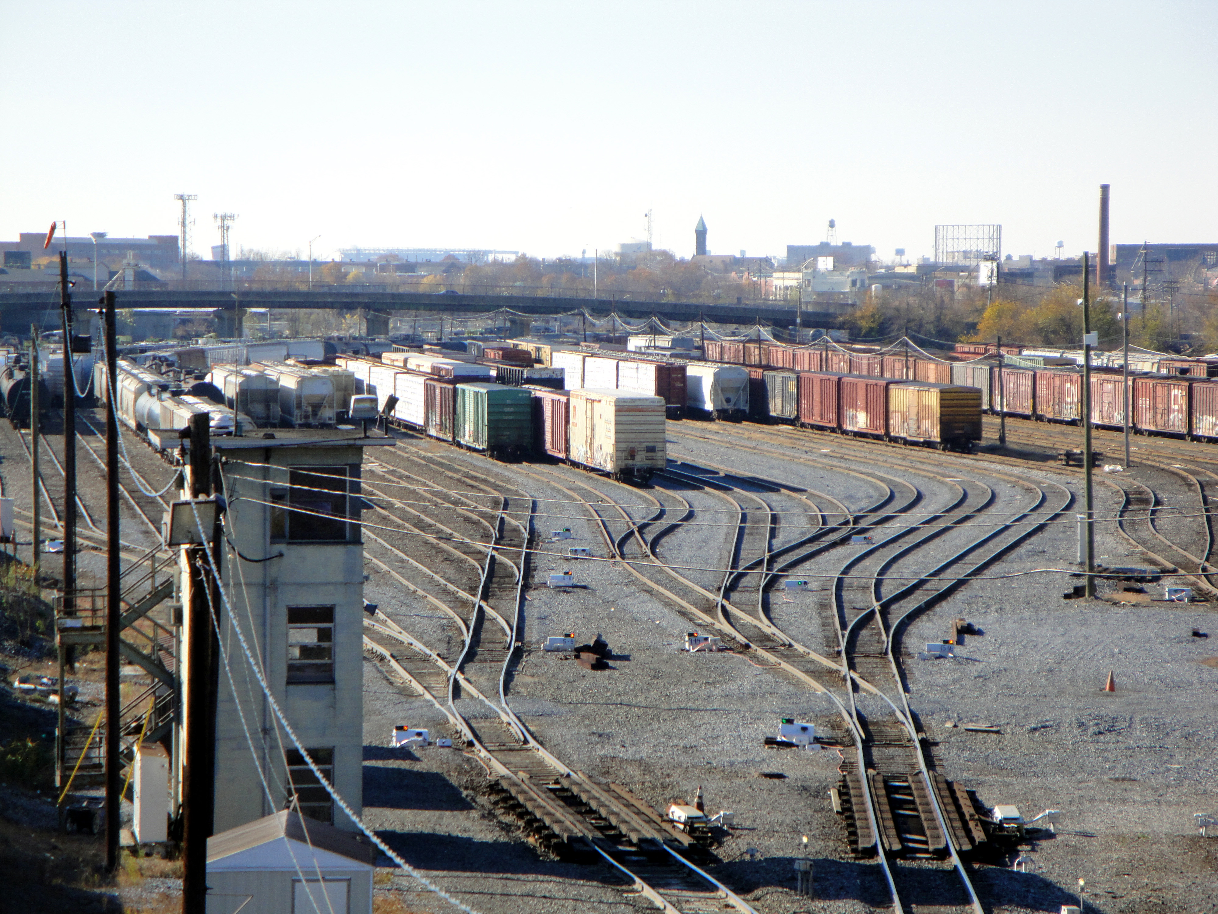 View of classification tracks at Pavonia Yard in Camden, New Jersey. Operated by Conrail Shared Assets Operations. Hump yard control tower and retarder tracks in foreground.